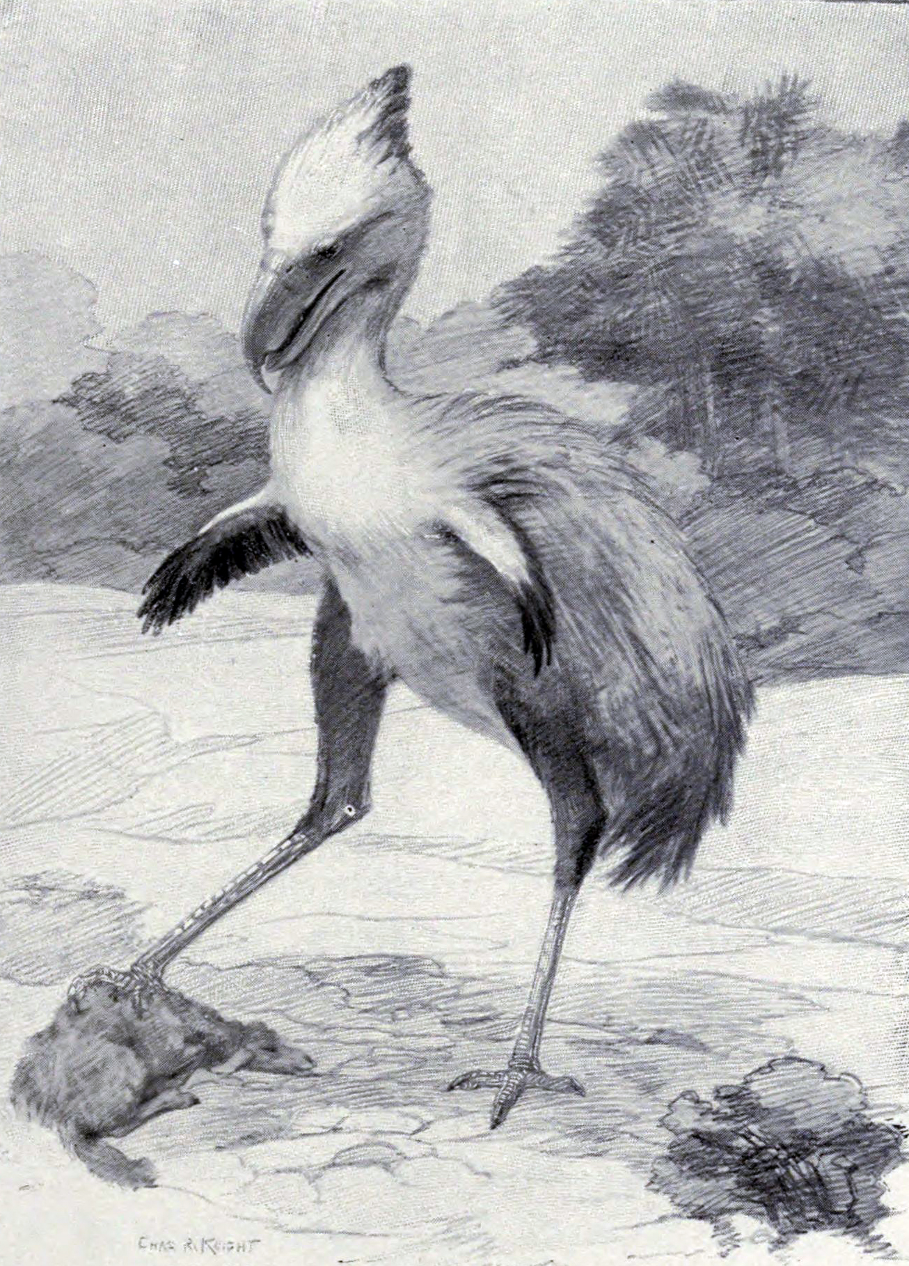 A drawing of the terror bird Phorusrhacos by Charles R. Knight published in Animals of the Past, 1901.